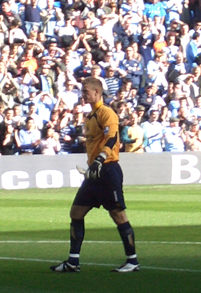 Manchester City FC goalkeeper Joe Hart during a football match in October 2008.